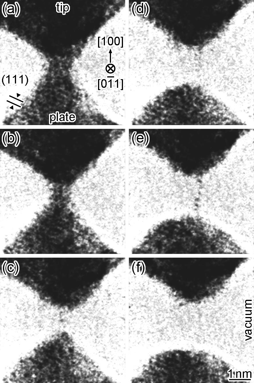 Time variation of Ag ASW formation process observed by in situ HRTEM.